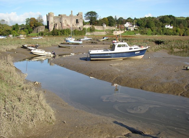 Muddy creek and castle, Laugharne Laugharne Castle is next to the shore, but is built on a sandstone cliff.